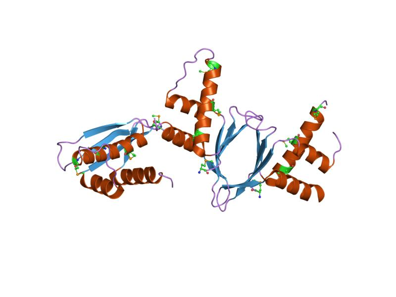 Cartoon representation of the molecular structure of protein registered with 1wz7 code.